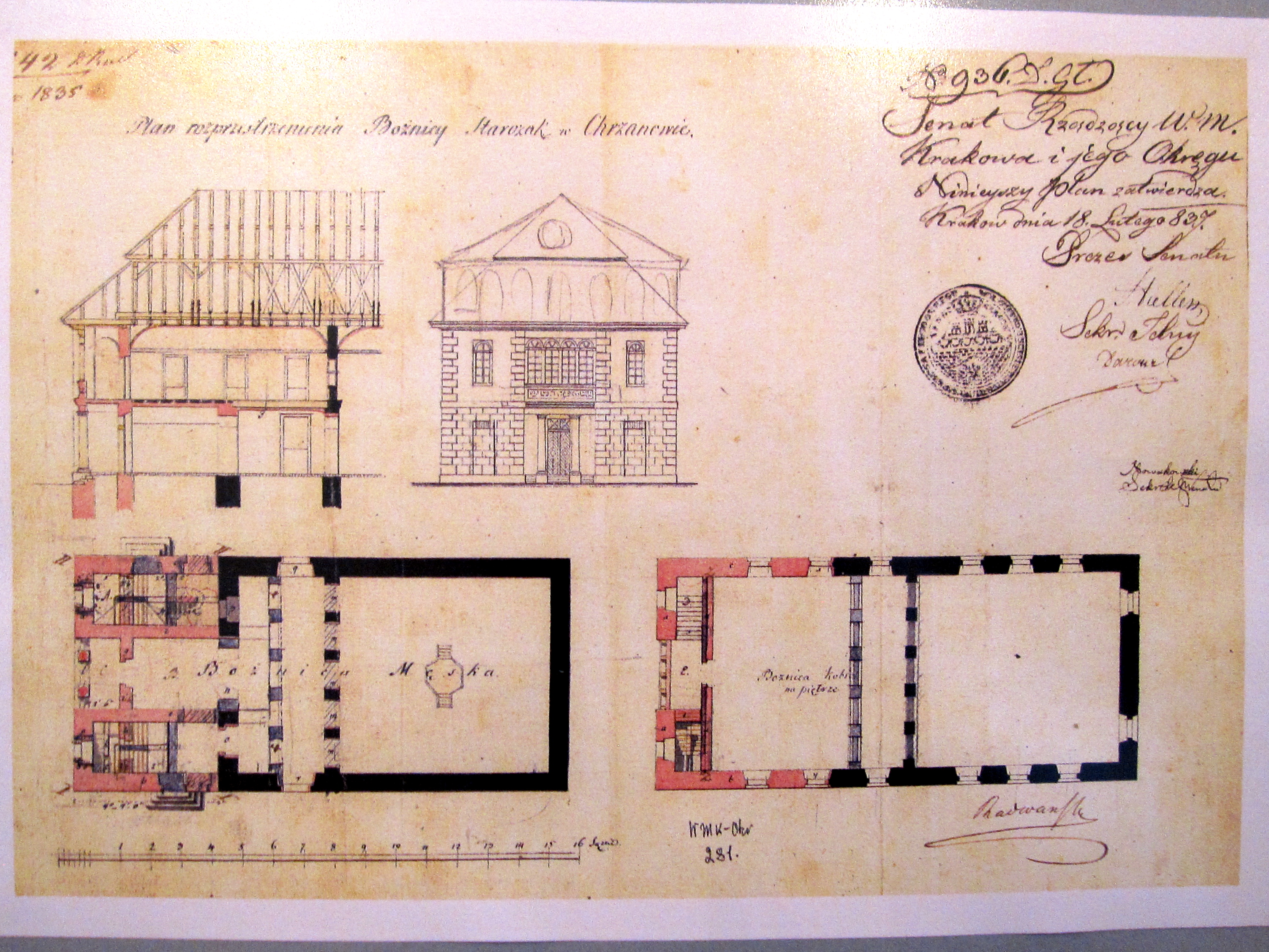 Old plan of the Great Synagogue of Chrzanów